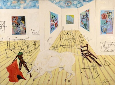 Ealy Mays's tribute to the influence of African Art on Pablo Picasso's work